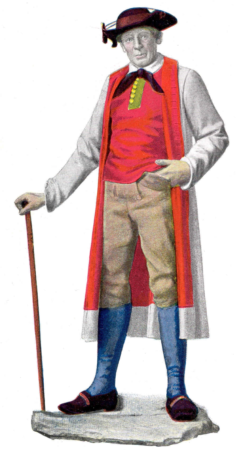 Traditional costume worn by a farmer from Bortfeld near Brunswick, Germany, approx. around 1900.